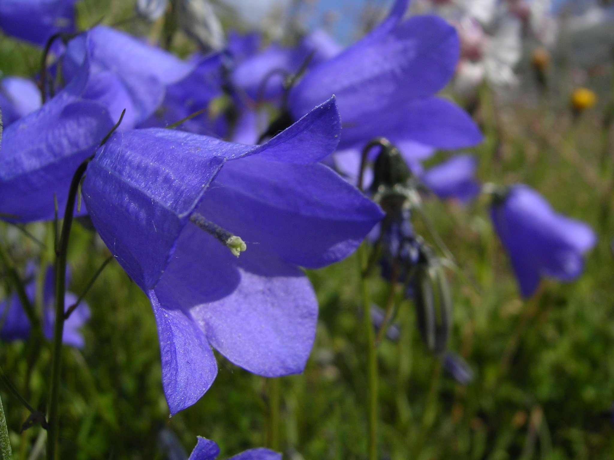 Campanula scheuchzeri